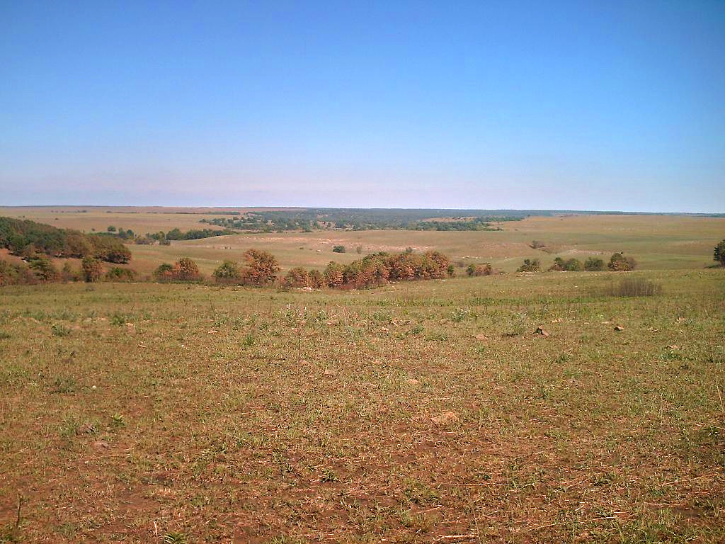 The Tallgrass Prairie Preserve — north of Pawhuska, in Osage County, Oklahoma. This photo was taken at the first overlook turnoff on the road leading to the main office, in September 2005. A Nature Conservancy preserve.